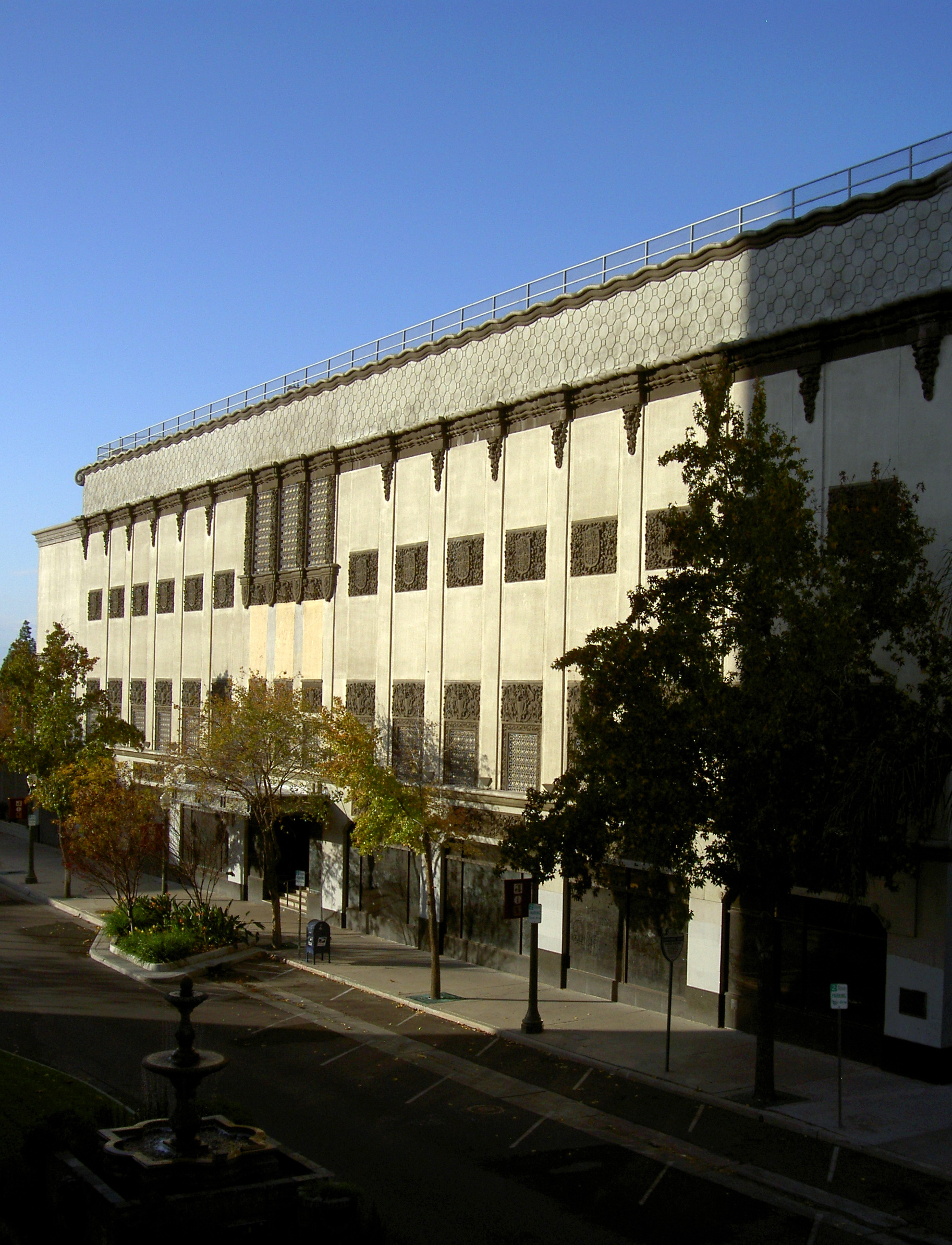 Facing E St, San Bernardino, California